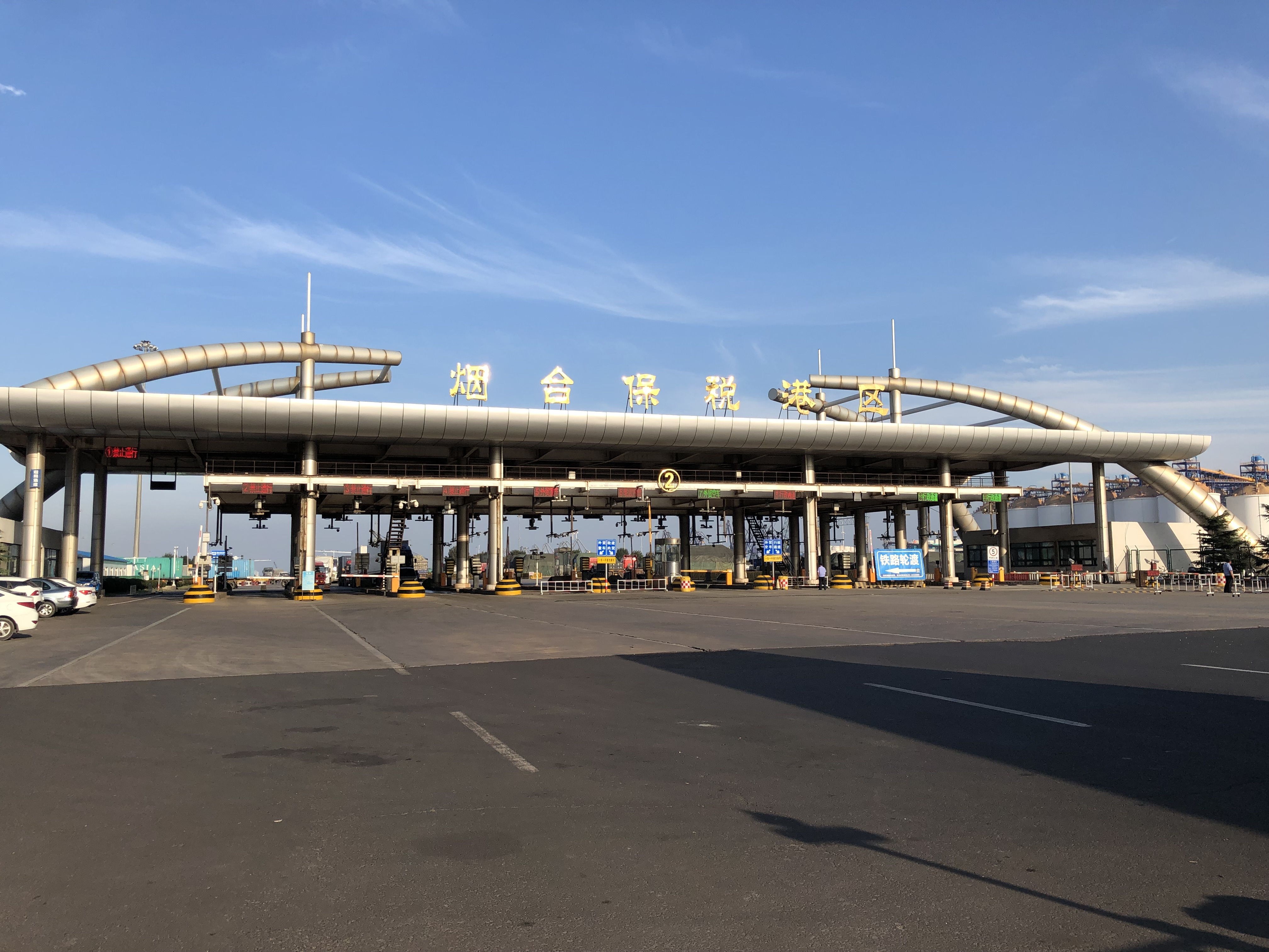 烟台港保税区 6588